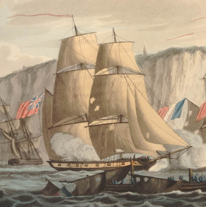 The gallant action off Dieppe, March 1812. By H.M. Brigs Roasario & Griffonne , Cpan Harvey & Trollope, defeating 12 French Brigs, each carrying 4 long carronades, 32 Ps and 30 men, Taking Three of the Brigs and destroying two more, although the French had a majority of 22, guns & 440 men. The view here taken is 3/4 mile eastward of Dieppe, under the high cliffs. Drawn by Lieut E. Vidal Print made by: John Heaviside Clark. Print made by: Matthew Dubourg. Published by: Edward Orme. After: Emeric Essex Vidal 1917,1208.4643 Description Recto Two British brigs in action against 12 French brigs, one of which foundered in foreground. 1812 Etching and aquatint, hand-coloured Lettered with title followed by an account of the attack; production details beneath the image, "Drawn by Lieu.t E. Vidal - Published, June 4th.1812 by Edwd. Orme Printseller & Publisher to his Majesty and Prince Regent., Bond St. (corner of Brooke St) London.- Engraved by Clark & Dubourg." Heightː 300mm Width: 376mm